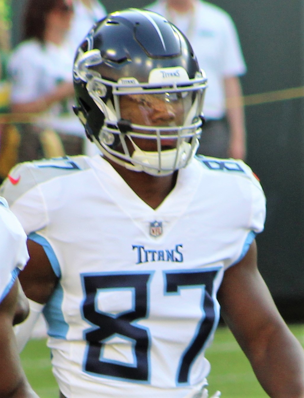 Jordan Veasy, Tennessee Titans at Green Bay Packers (Preseason), August 9, 2018